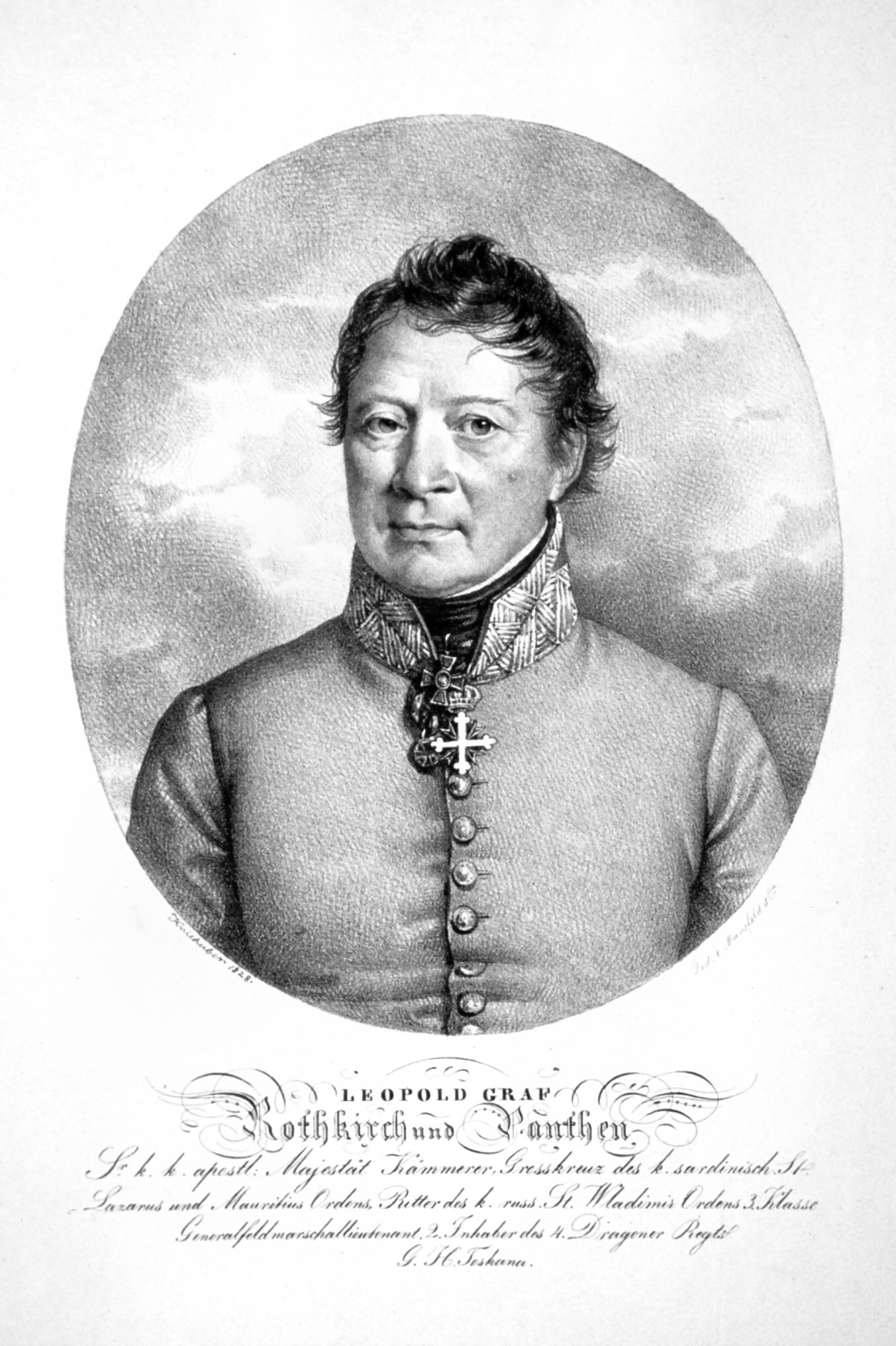 Portrait of Leopold Graf Rothkirch und Panthen (1769-1839), Austrian general